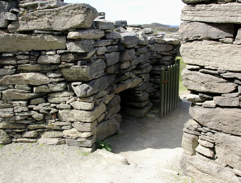 Dun Carloway, Lewis, Scotland, entrance to the with entrance to guard cell